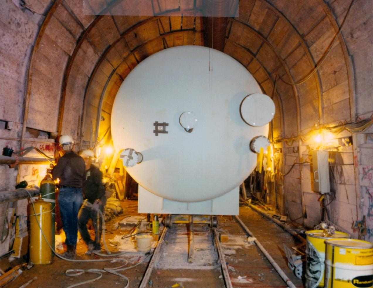 Test Chamber No. 1 for the Husky Pup test in the U12t.03 drift, 1975 (photograph on file, Defense Threat Reduction Information Analysis Center, Albuquerque).